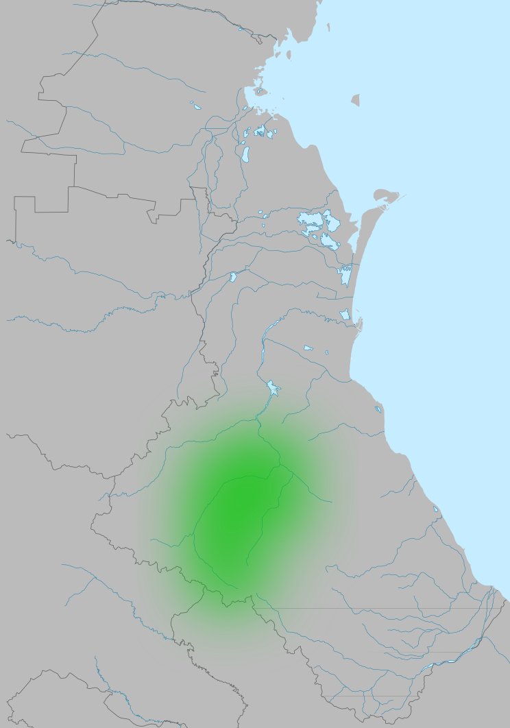 Avaristan maps